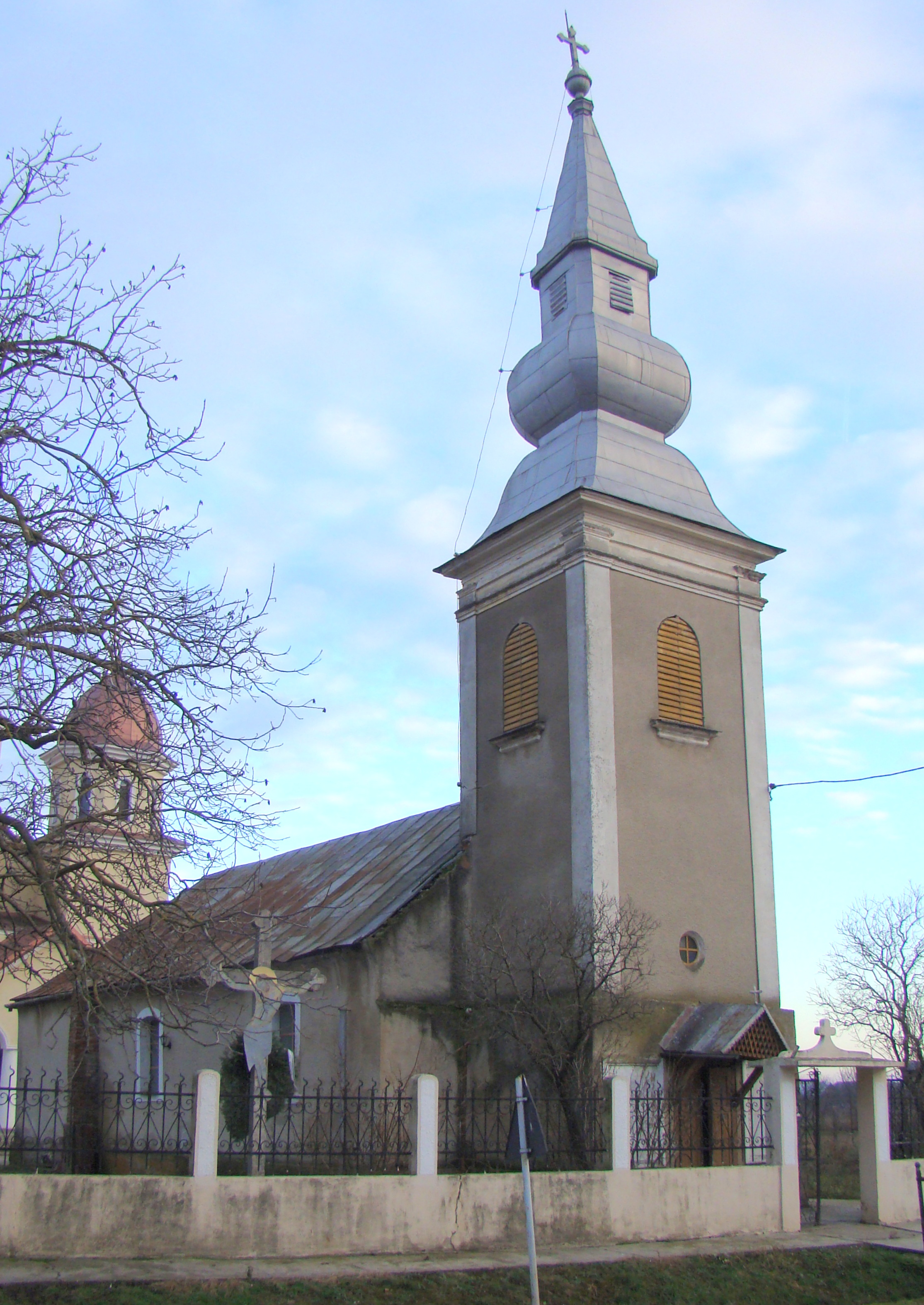 Archangels' church in Inand, Bihor county, Romania